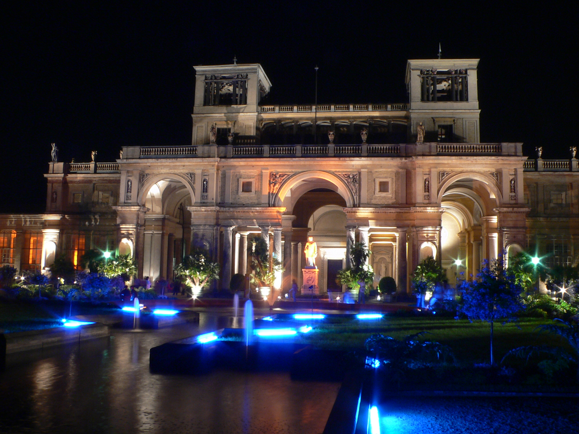 Orangery Palace, main entrance, in Potsdam, Germany. Illumination while a “Schlössernacht” (literally Night of the Castles) event